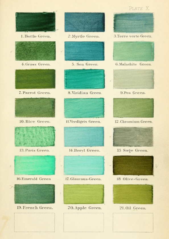 Green colors. Plate X. A nomenclature of colors for naturalists : and compendium of useful knowledge for ornithologists.